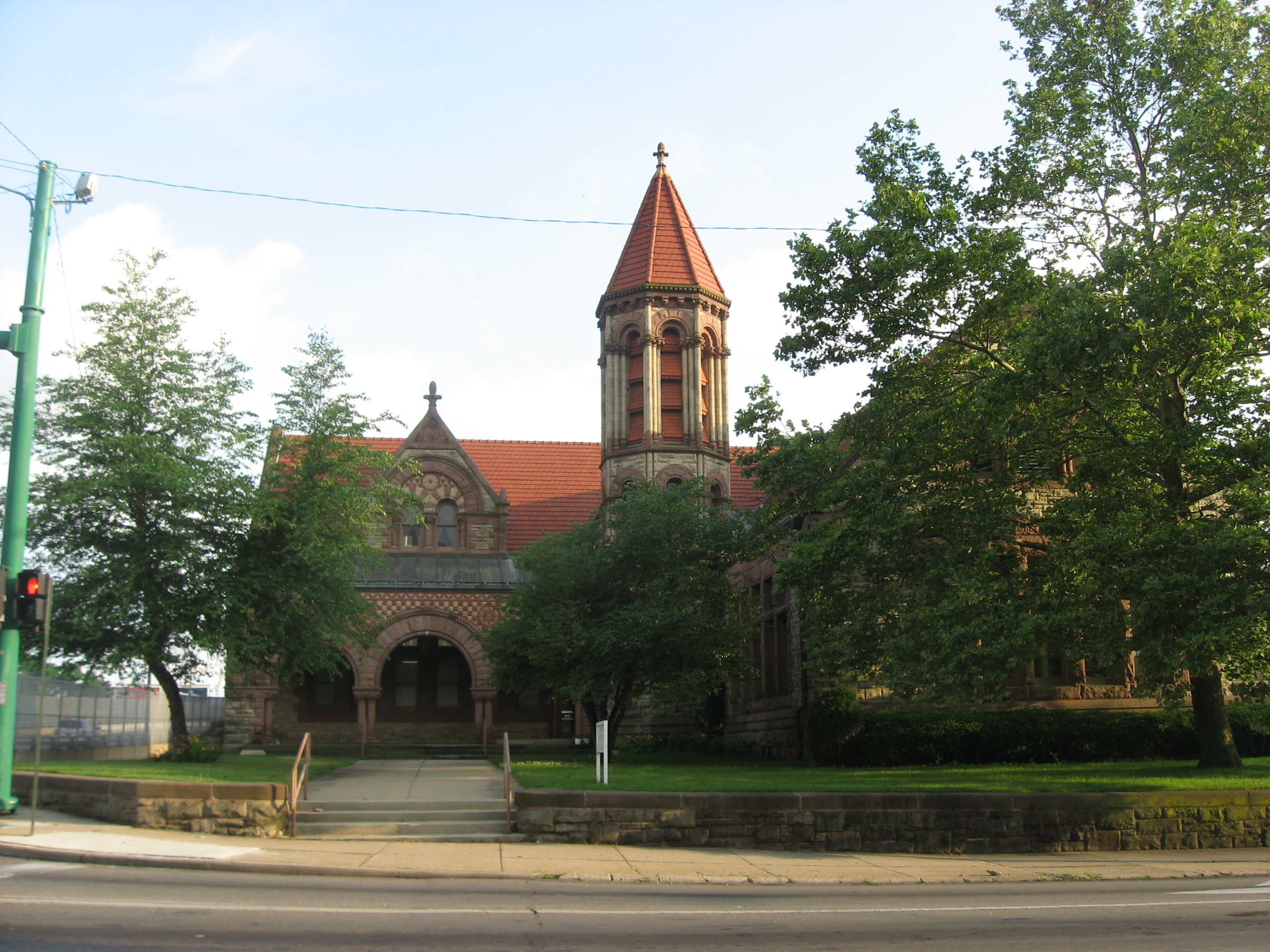 Front of the former Warder Public Library, located on the southwestern corner of the intersection of High Street and Spring Avenue on the eastern side of downtown Springfield, Ohio, United States. Built in 1890 and since converted to a literary education facility, it is listed on the National Register of Historic Places.